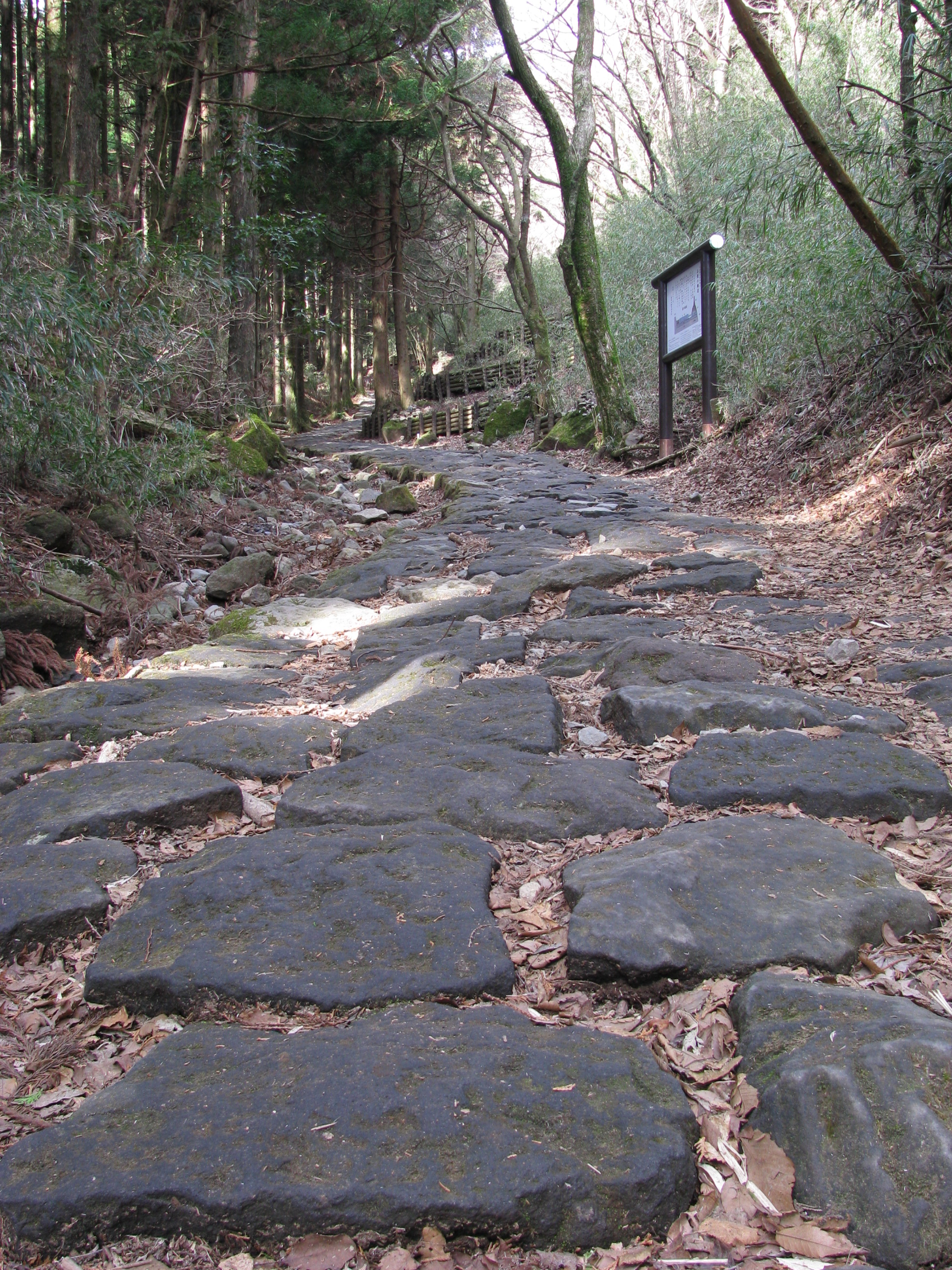 Setts of the Old Tōkaidō. This place is Hakone, Ashigarashimo District, Kanagawa, Japan.